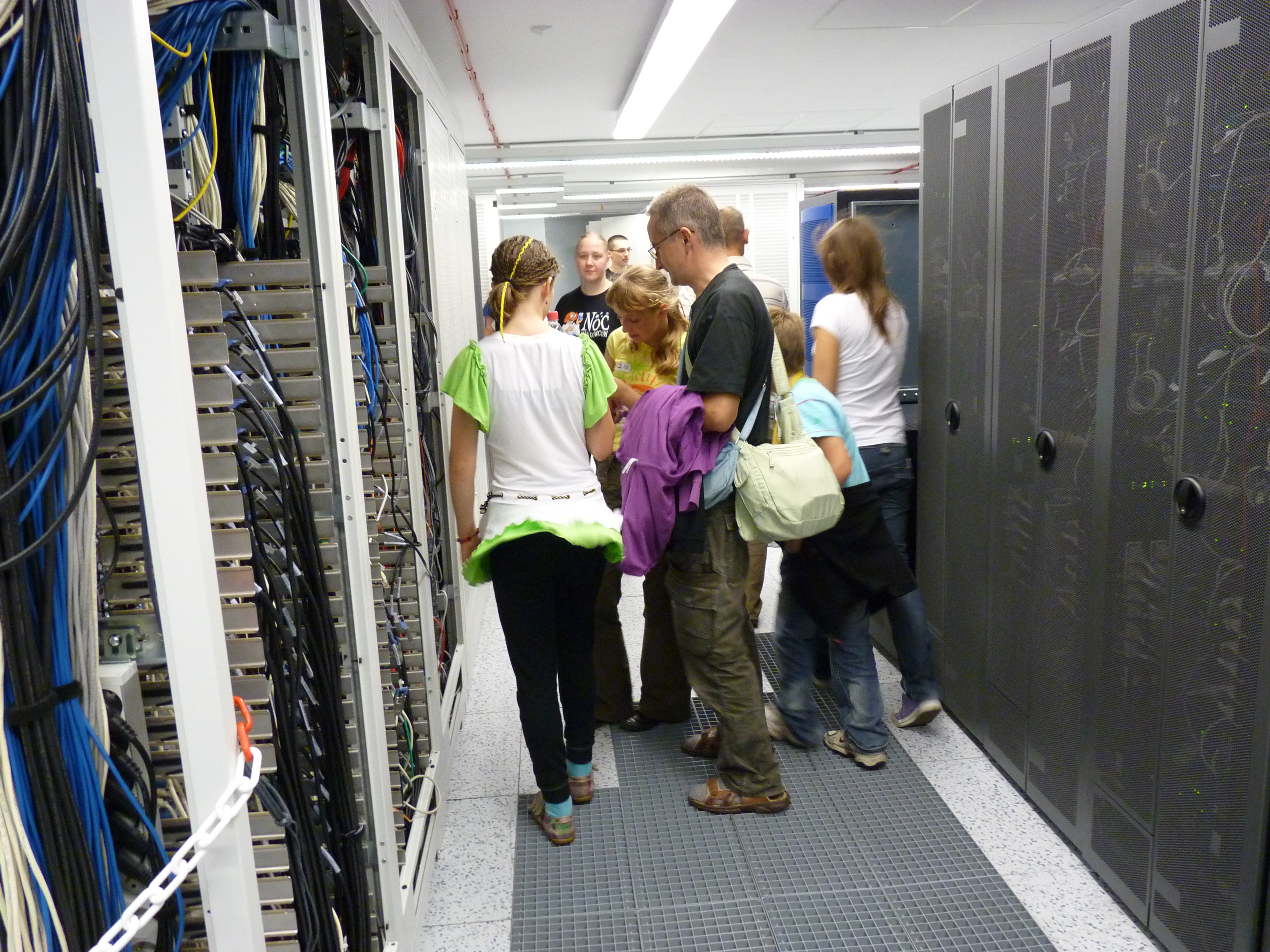 Visiting the datacenter of Poznan Supercomputing and Networking Center in Poznan during European Researchers Night.